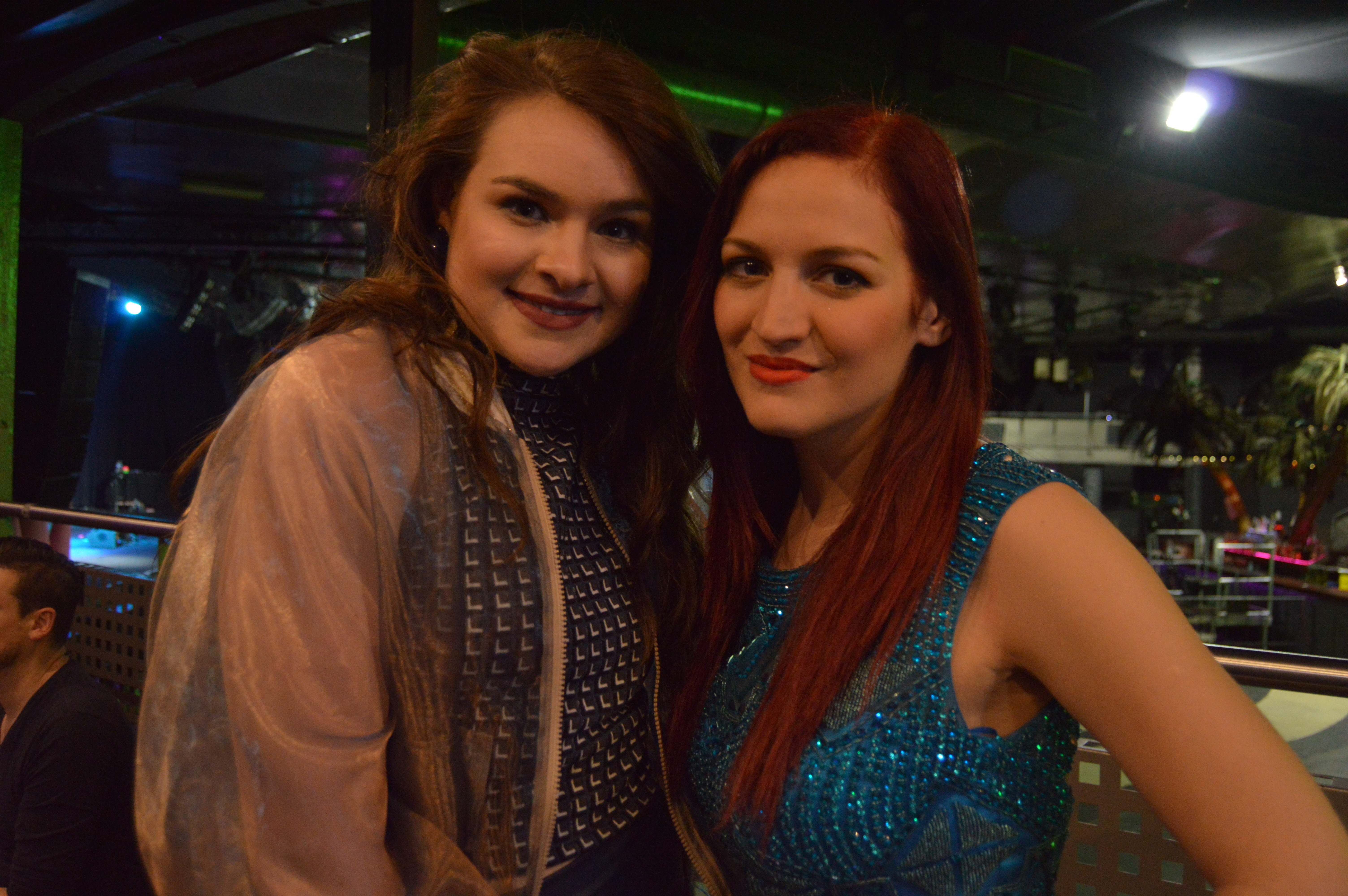 Sammarinese Eurovision 2018 entrants Jessika & Jennifer at Eurovision Spain PreParty in Madrid (April 2018)